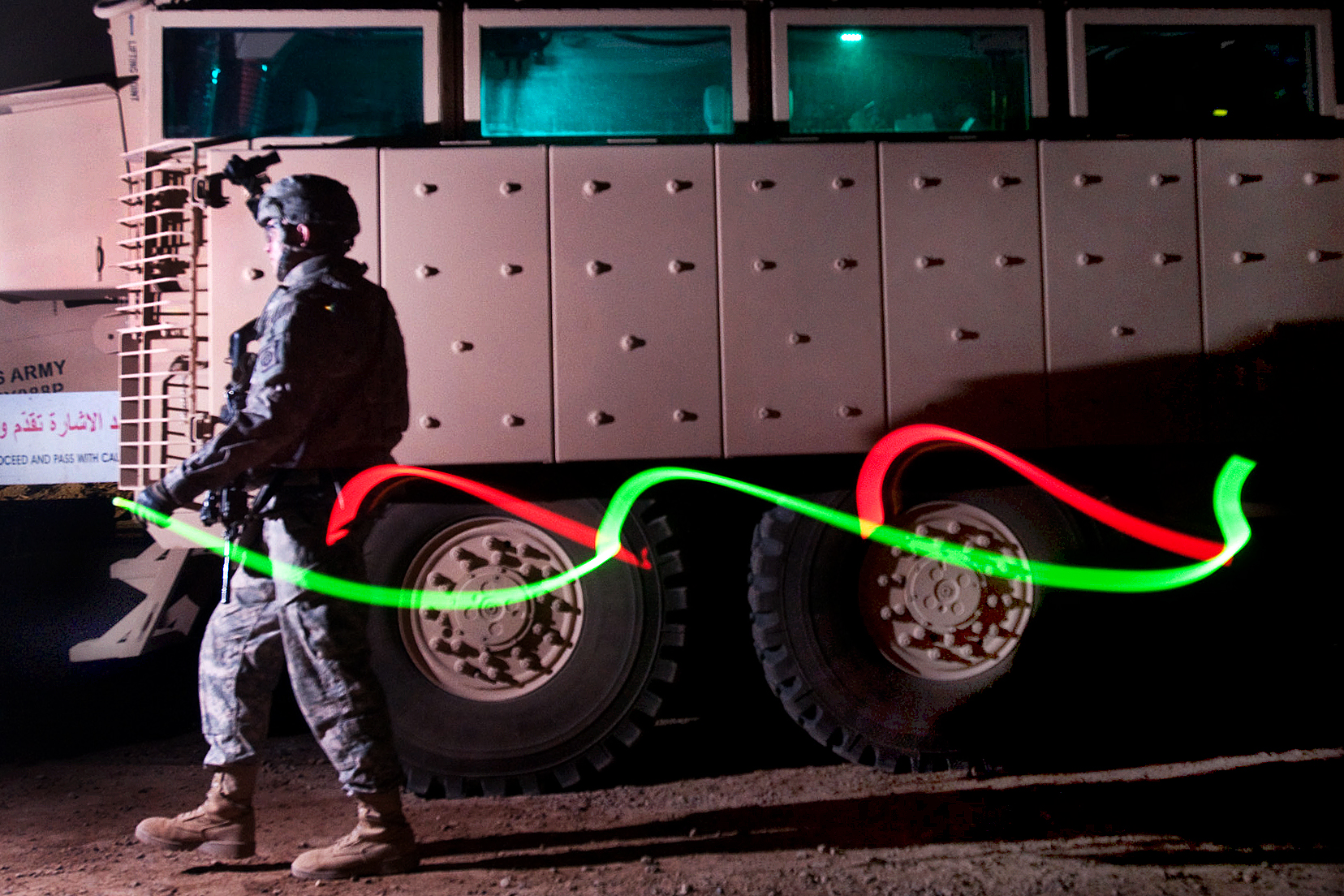 A U.S. Army paratrooper walks with two chemical lights as his unit acts as quick reaction force for Camp Ramadi, Iraq, Oct. 26, 2009. The paratrooper is assigned to the 82nd Airborne Division's Company B, 2nd Battalion, 504th Parachute Infantry Regiment, 1st Brigade Combat Team. U.S. Army photo by Spc. Michael J. MacLeod See more at